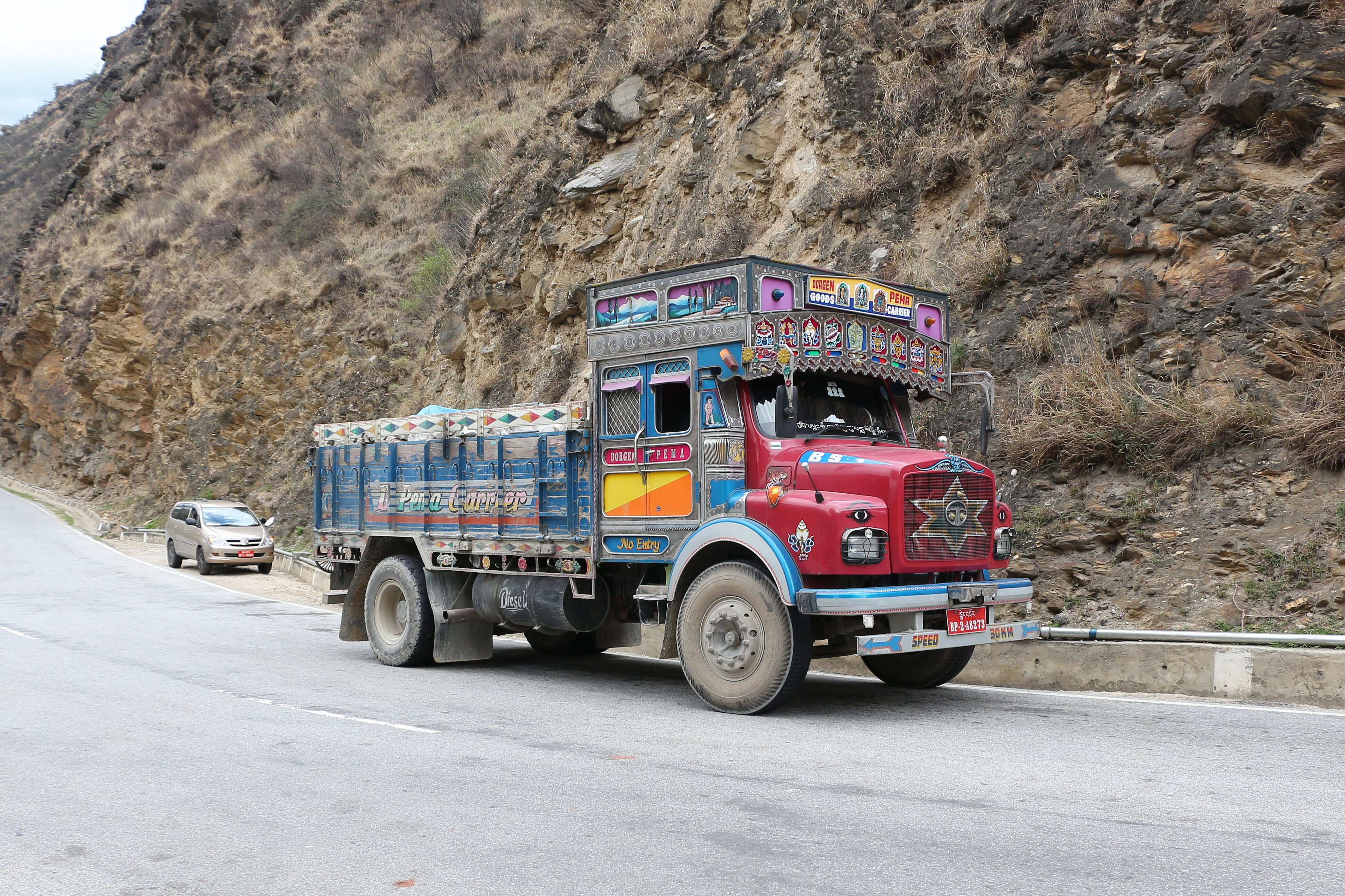 Truck on Phuentsholing-Thimphu highway (AH-48), Bhutan